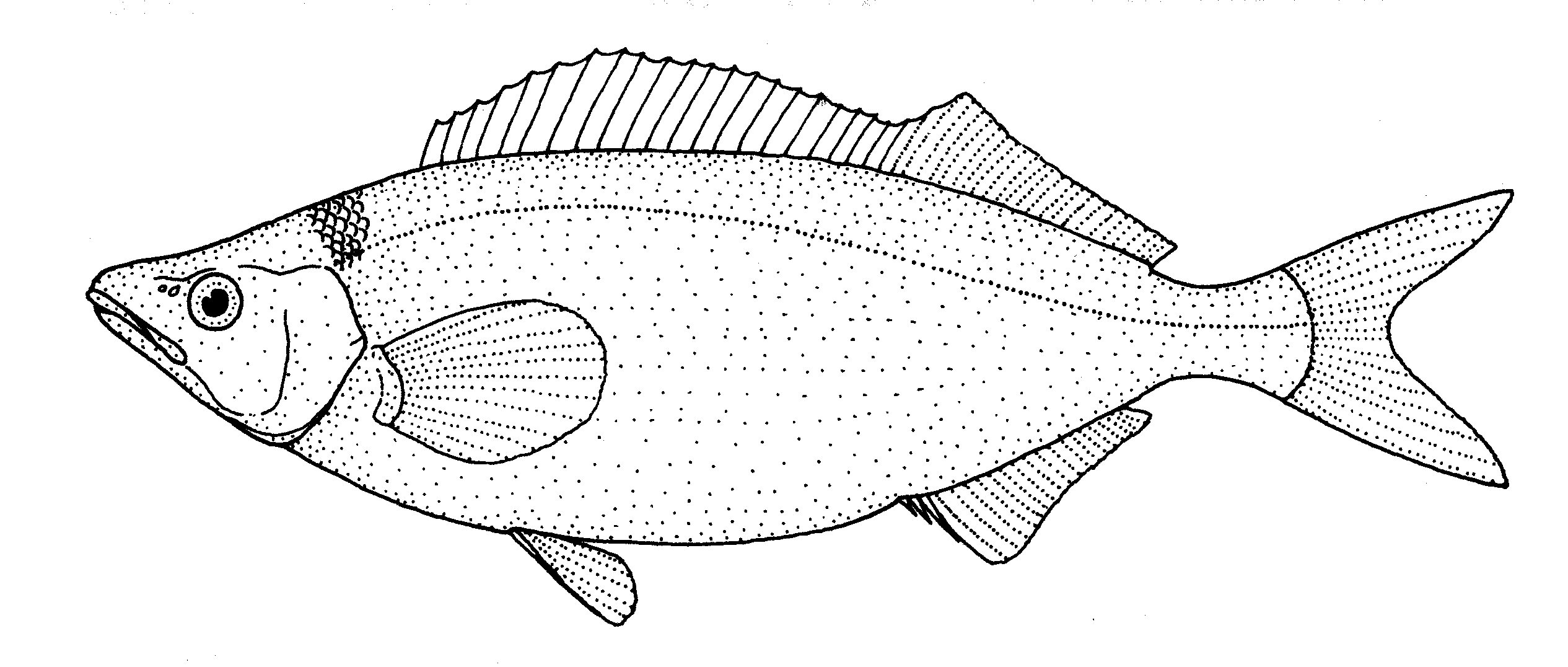 Mendosoma lineatum (Telescope fish)